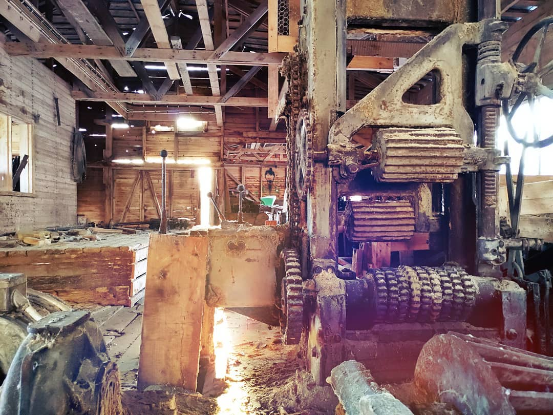 Forsen interiör